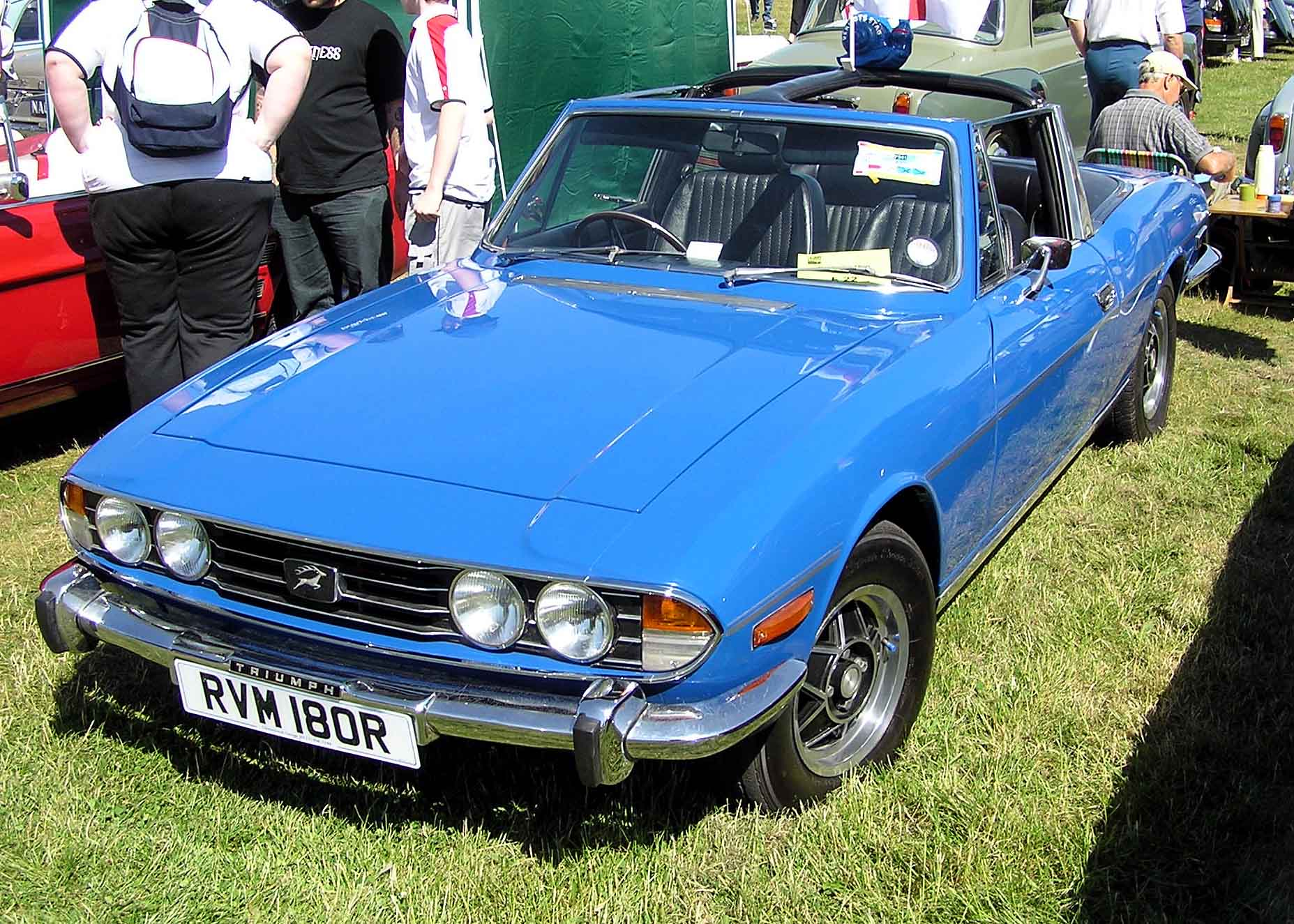 1977 Triumph Stag Mark 2 at Bristol Car Show, The Downs, Bristol, England.